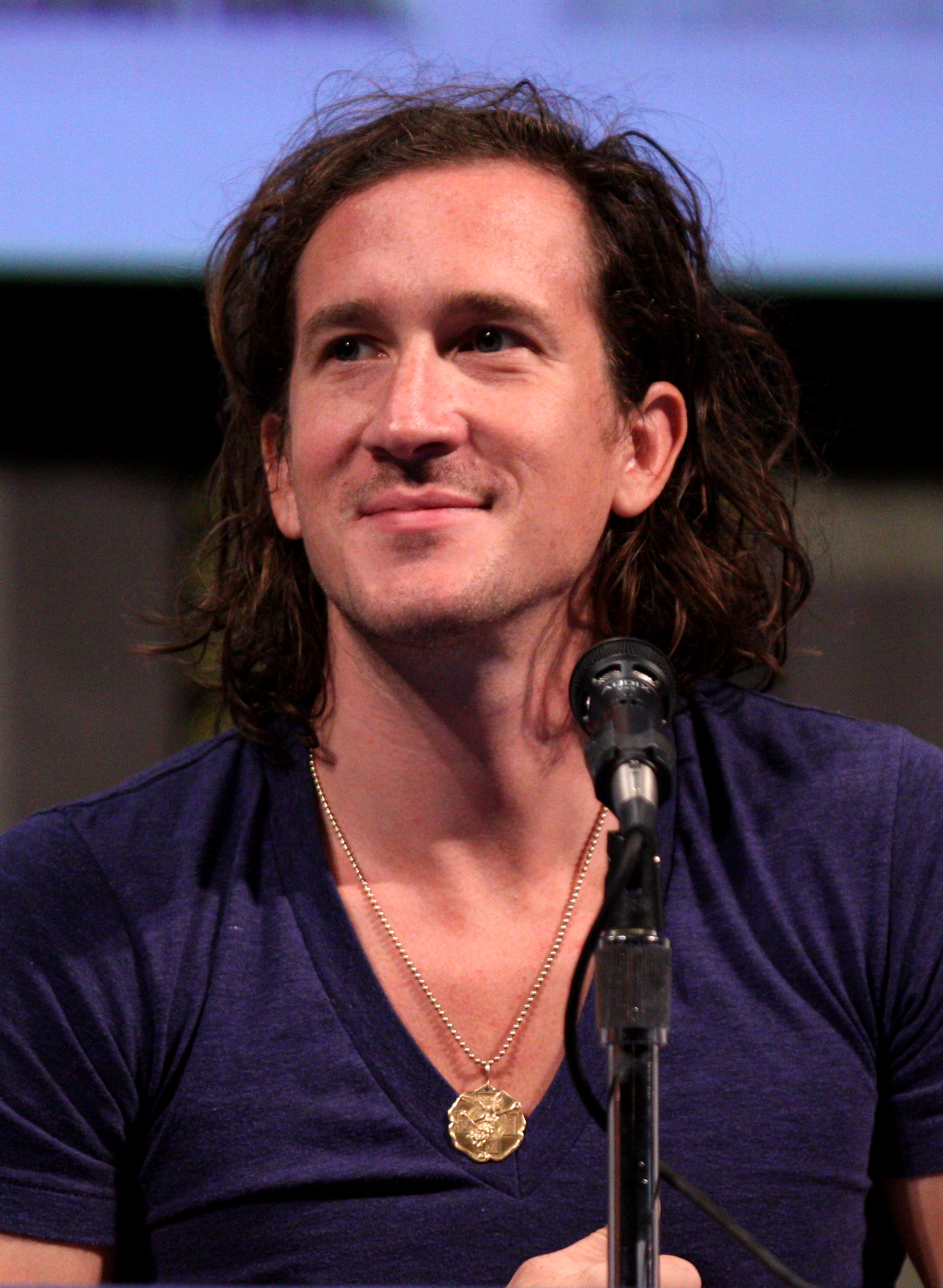 Ian Brennan at the 2011 Comic Con in San Diego